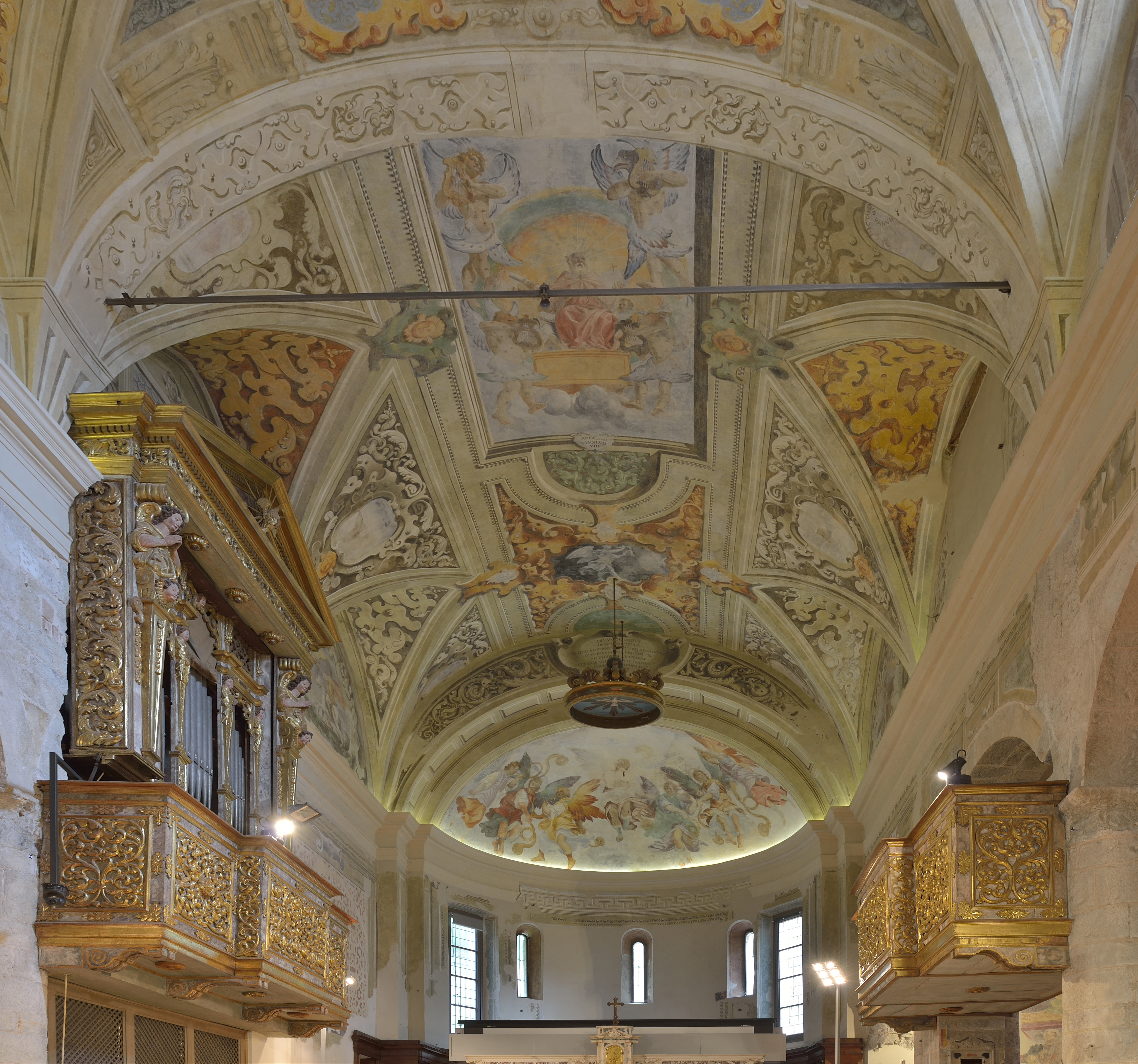 The Chiesa di San Giorgio church by Ottavio Amigoni in Brescia